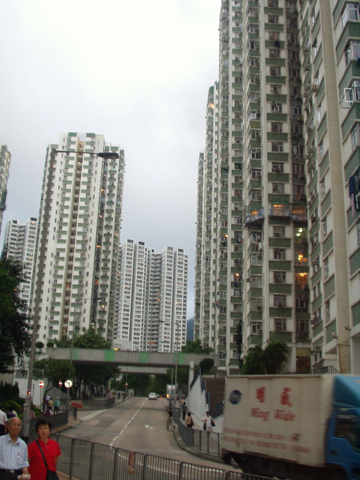 Nan Fung Sun Chuen, a typical private housing estate in Hong Kong (Taken by Tsui Sing Yan Eric)